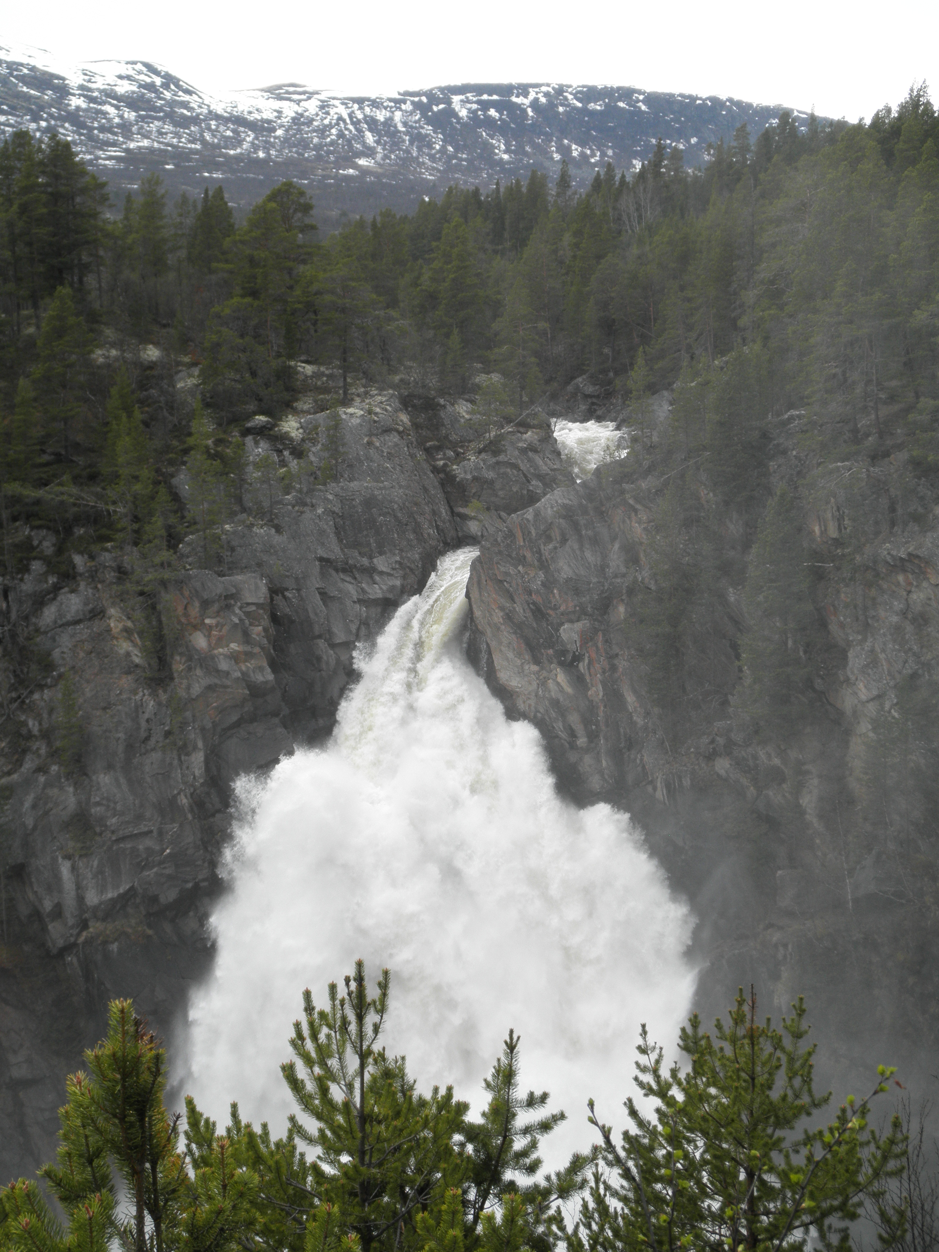 Einunnfossen waterfall: Einunna river is regulated and normally almost dry, but is here running free because of rapid snow-melting.